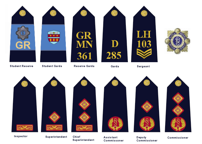 Garda siochana ranks